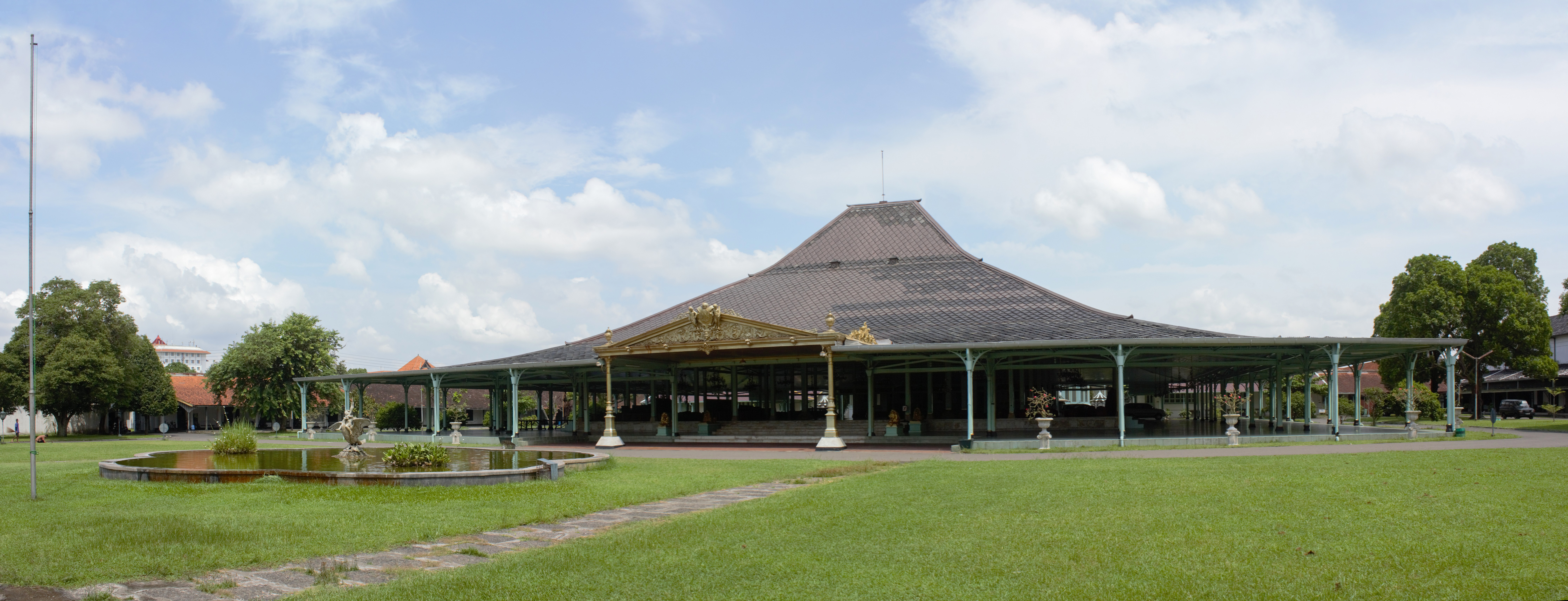 The pendopo at Mangkunegaran Palace, said to be the largest in Java